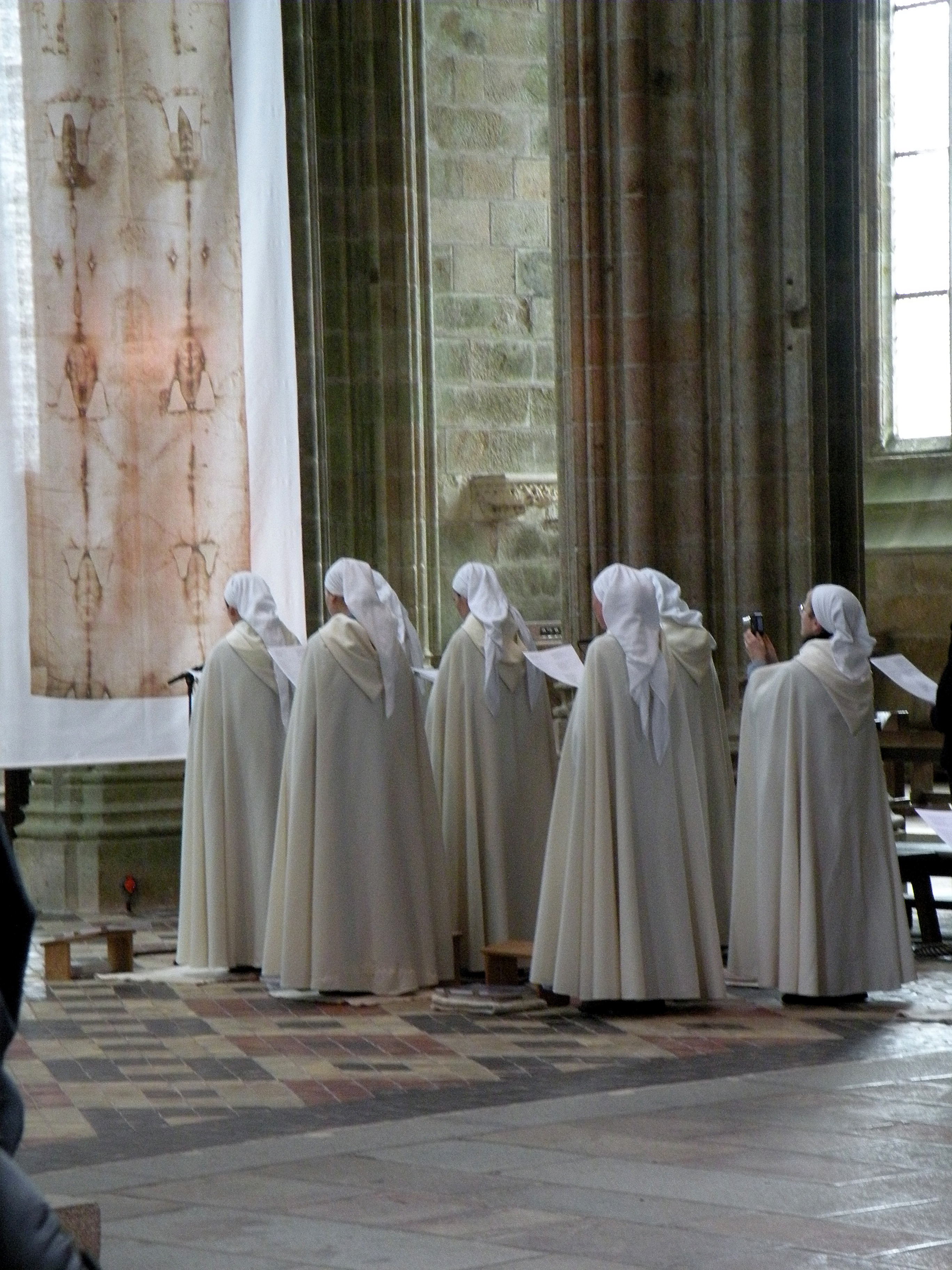 A service in progress in Mont Saint-Michel Abbey, Normandy, France.